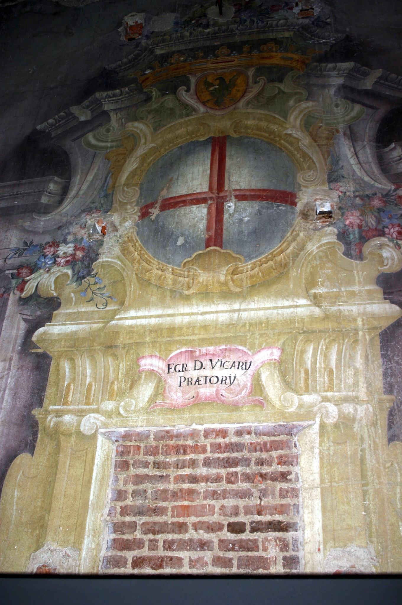 Milan: a fresco on the wall formerly at the back of a judge's bank, at the first stage of the "Broletto nuovo" or "Palazzo della Ragione", i.e. the ancient tribunal. Under the Coat of arms of Milan, the latin inscription reads: Egregij Domini Vicarij Praetorij ("The Most Honorable vice-Praetor"). Picture by Giovanni Dall'Orto, July 9 2007.